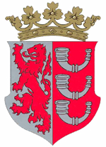 Coat of arms of Eindhoven